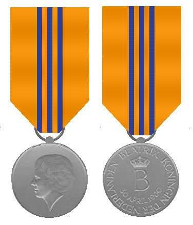 Coronation Medal 1980 Netherlands